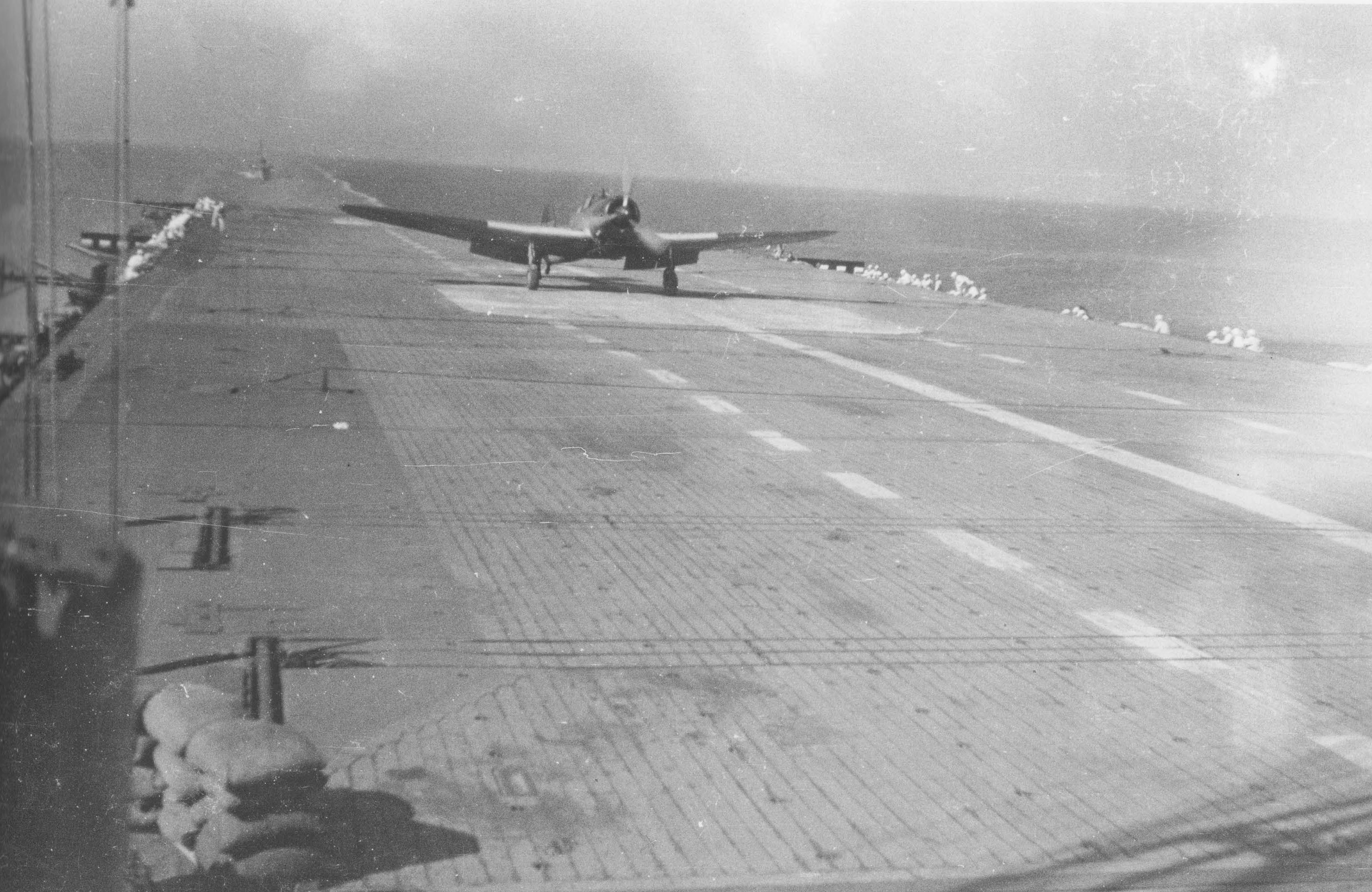 After repairs to the damage from the Battle of the Santa Cruz Islands, Imperial Japanese Navy carrier Shōkaku; lands a Type 97 bomber in preparation for continued operations against US naval forces in the south Pacific.